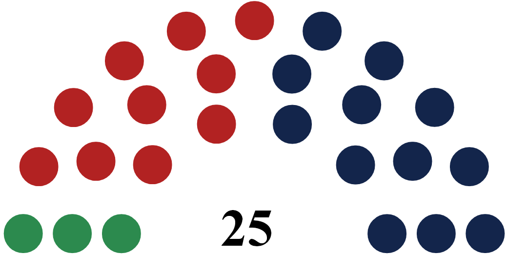 Le Landtag en 2005